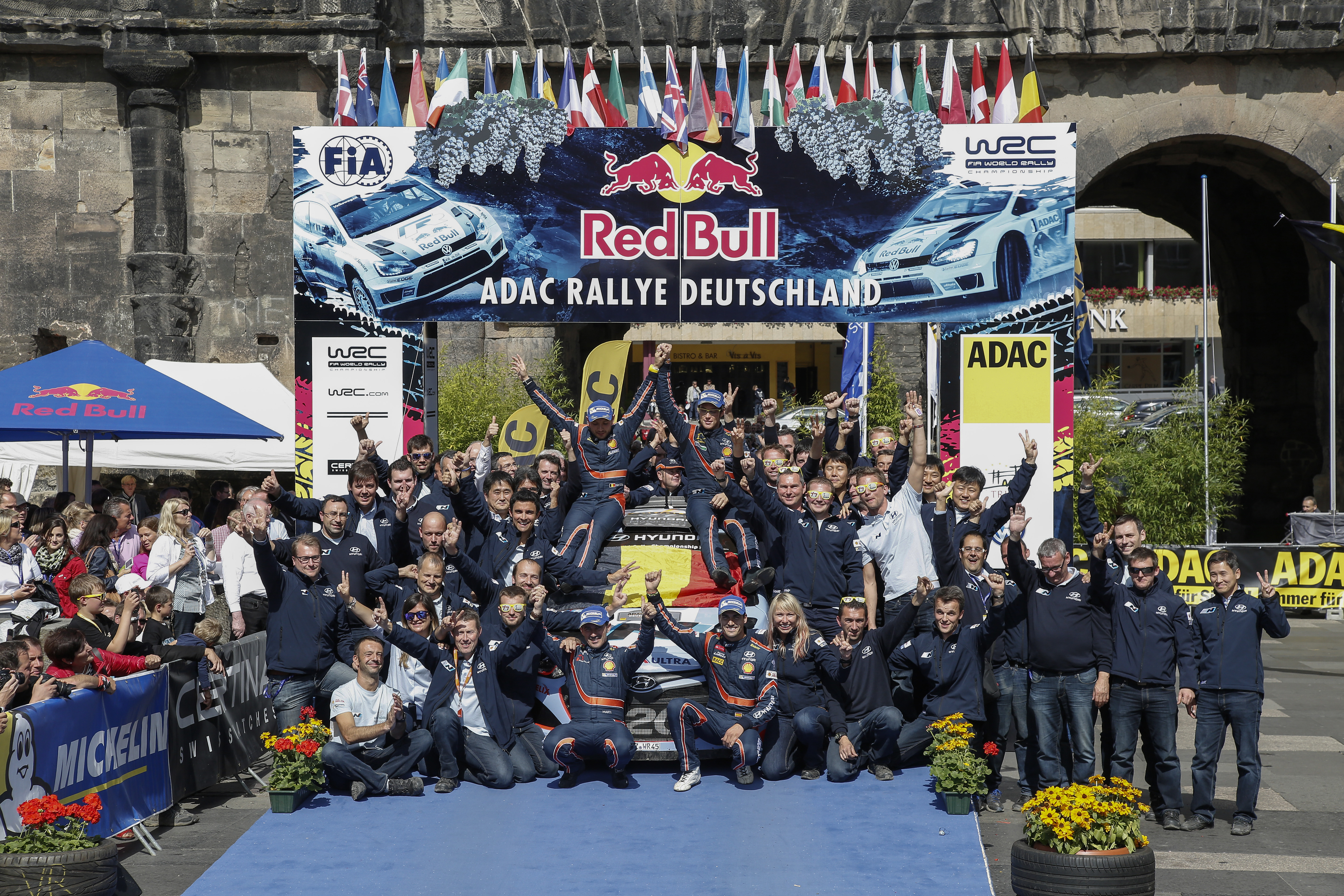 Hyundai Motorsport celebrates, as Thierry Neuville and co-driver Nicolas Gilsoul wins the 2014 Rally Germany (Rallye Deutschland), with Dani Sordo and Marc Martí in 2nd place.